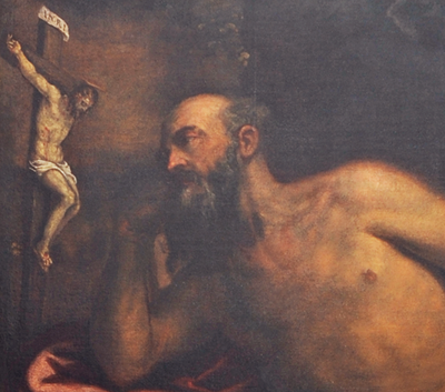 Giovanni Battista Maganza the elder (c. 1513–1586), San Girolamo penitent (1570), detail. Church of San Marco in San Girolamo, Vicenza.